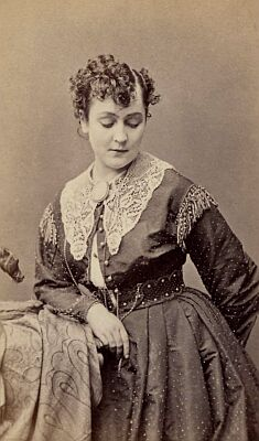 Photo of Adah Isaacs Menken, standing, looking down right.